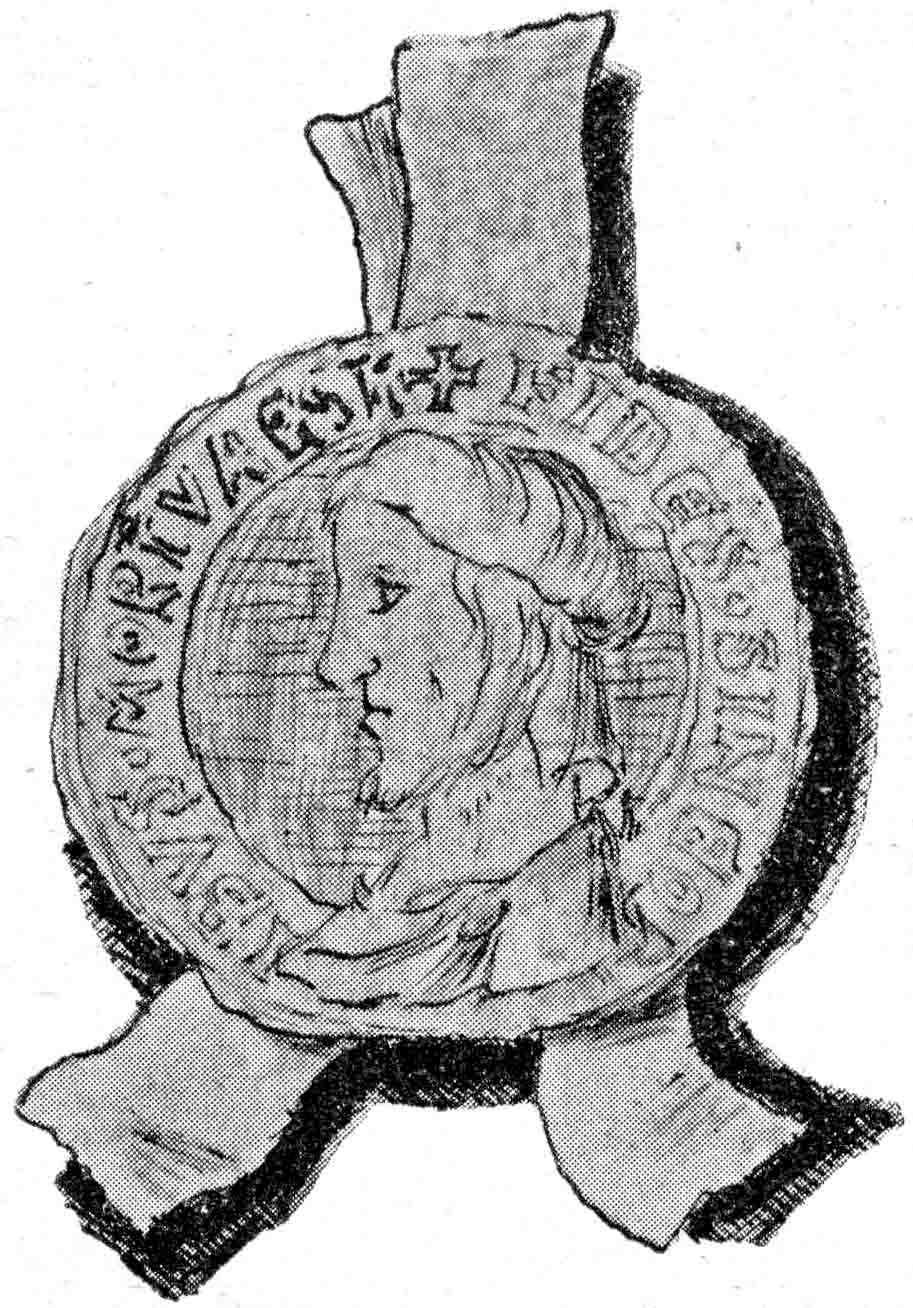 Henry III of Gueldre's Seal